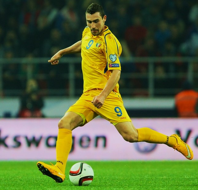 Artur Ioniţă